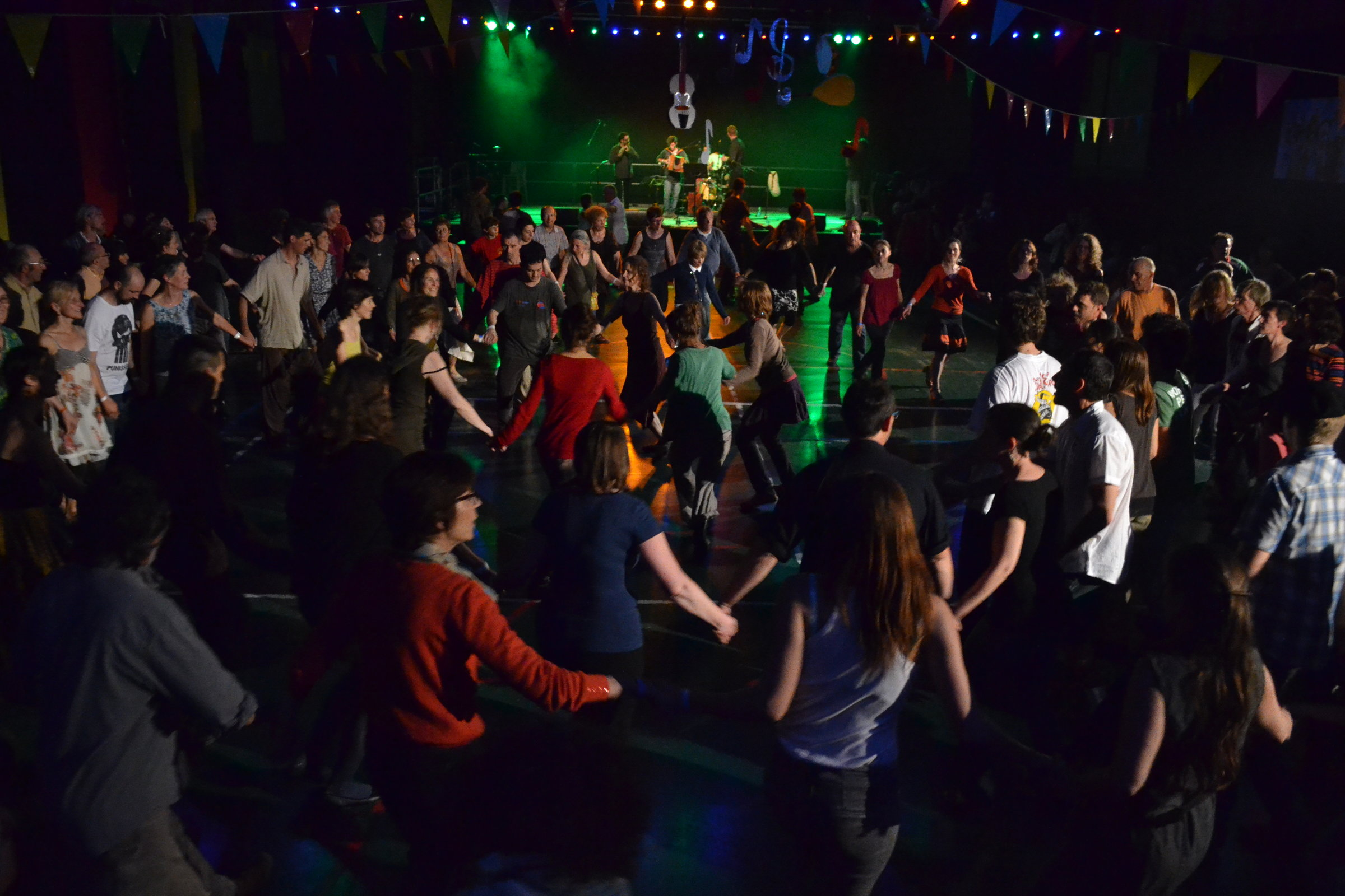 Votz en bal ball during Trad'envie 2015.